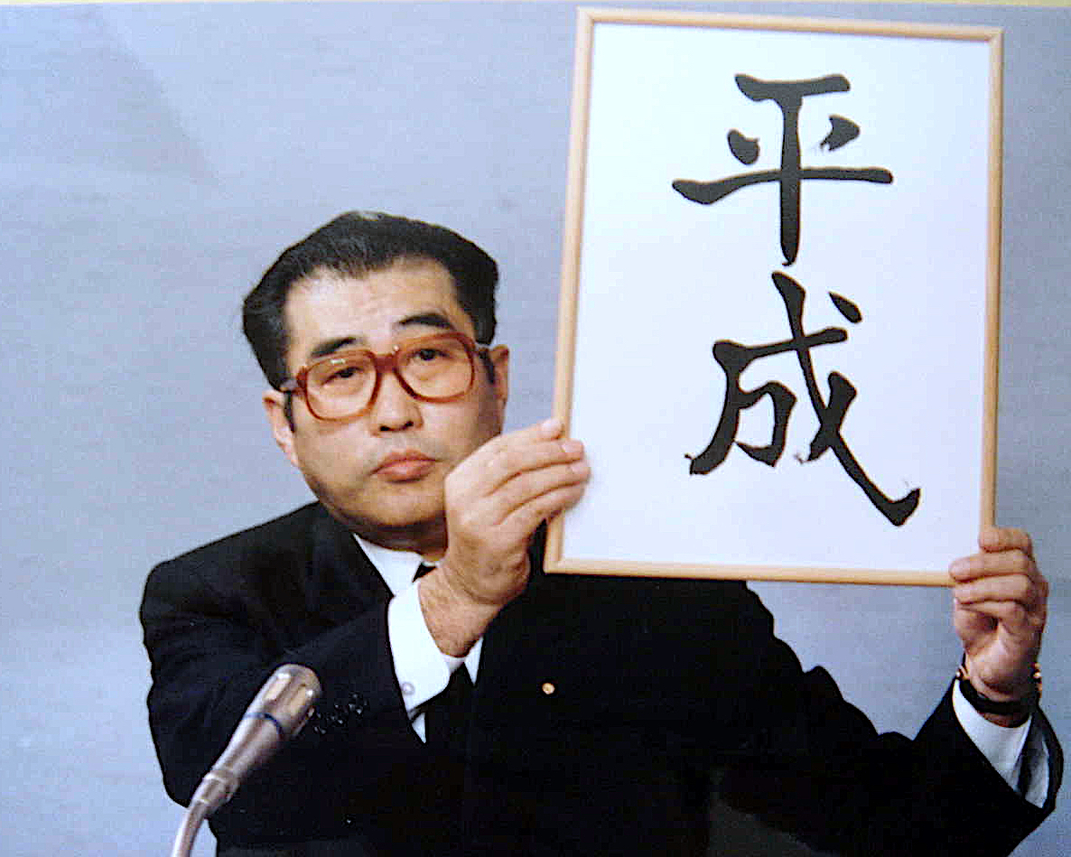 Keizō Obuchi, Chief Cabinet Secretary, attended the press conference to announce the new era name "Heisei" at the Prime Minister's Official Residence in Chiyoda Ward, Tōkyō Metropolis on January 7, 1989.